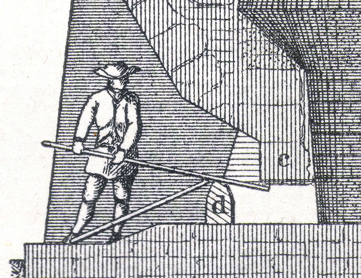 Workers (extract from picture p. 403). Image scanned in : Manuel de la métallurgie du Fer, Tome 1, par Adolf Ledebur, édition française traduite par Barbary de Langlade revu et annoté par F.Valton, publié par Librairie polytechnique Baudry et Cie, 1895, page 403.